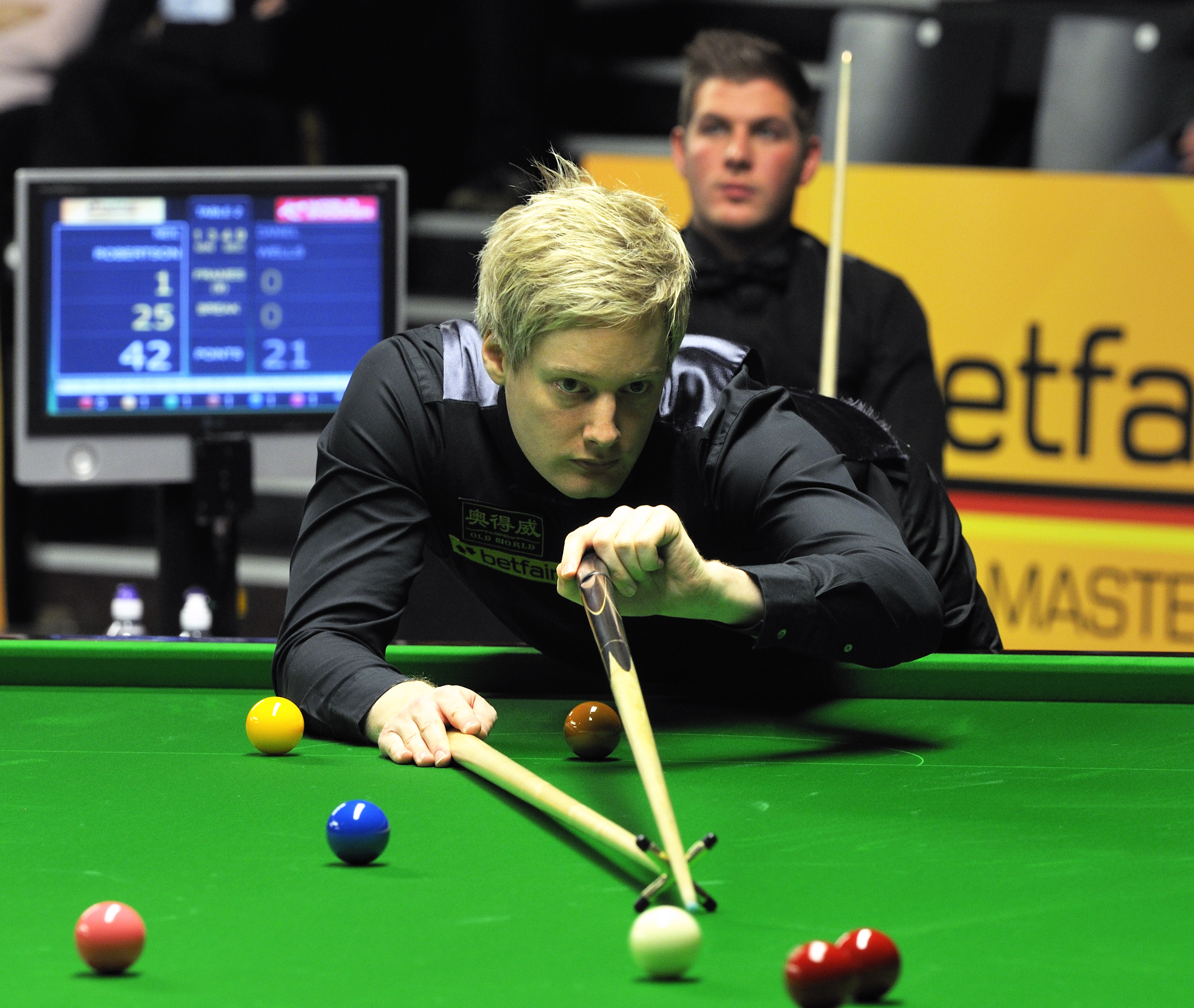 Picture taken in Berlin during the Snooker German Masters in 2013. Daniel Wells, Neil Robertson.